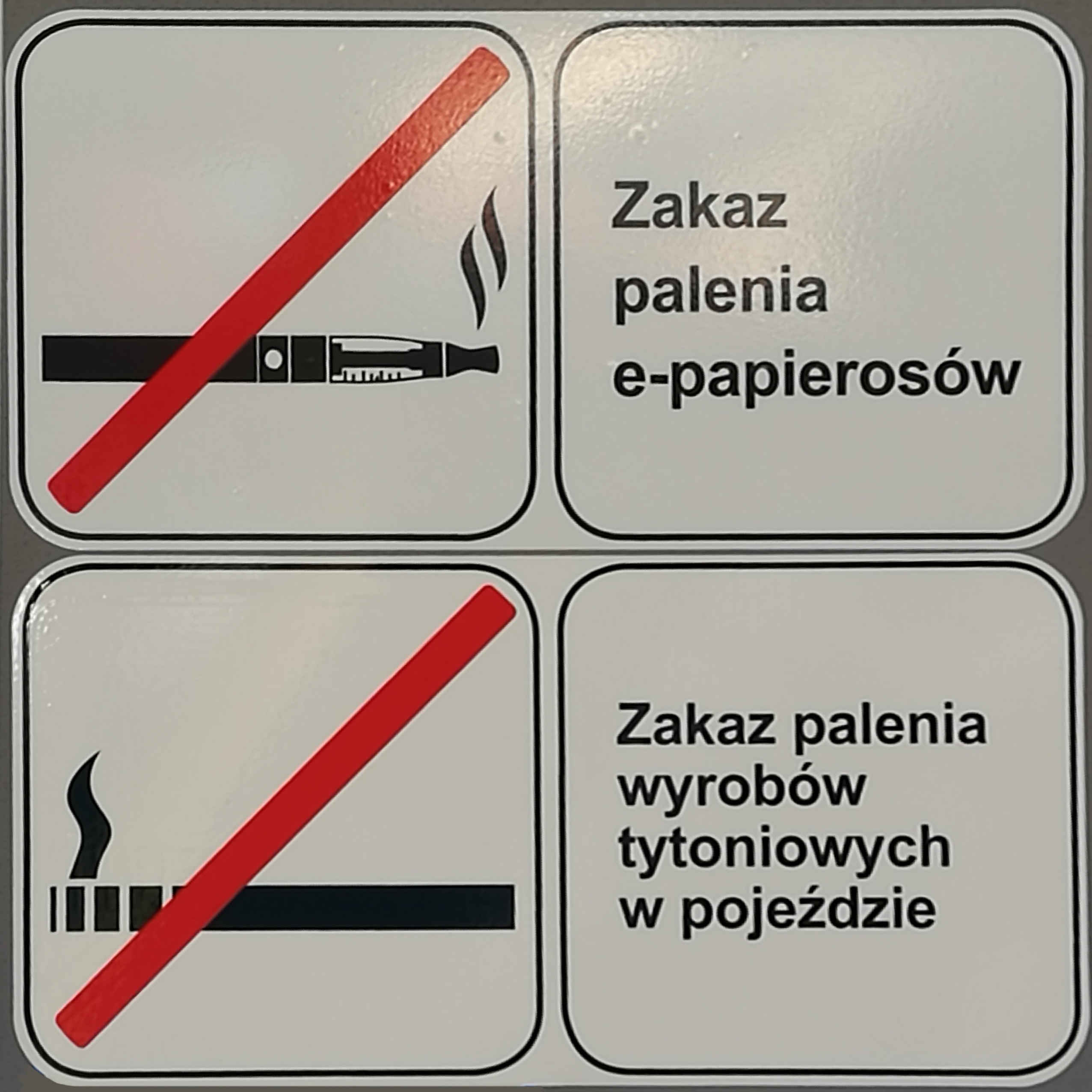 A sign taken informing that smoking and vaping are forbidden on a this bus, taken on a Gdansk ZTM bus.